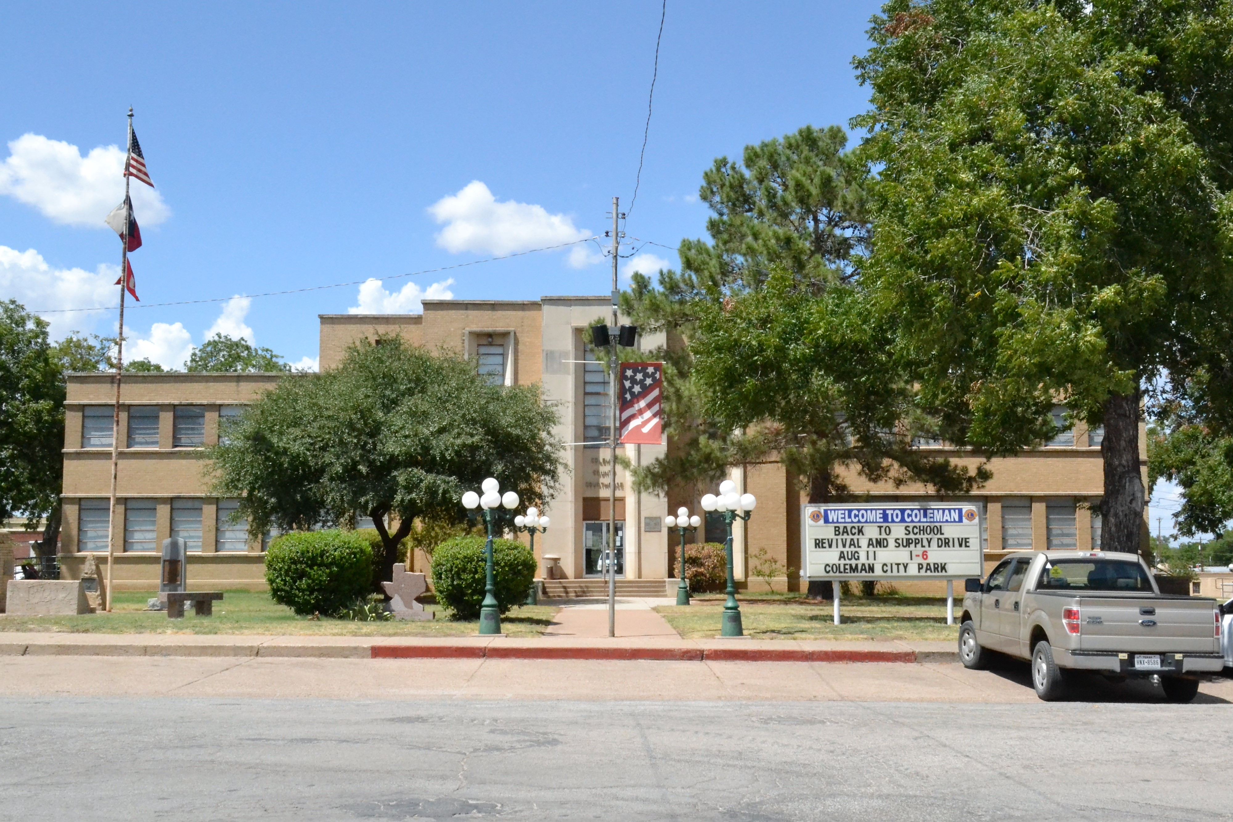 The Coleman County Courthouse in Coleman, Texas.